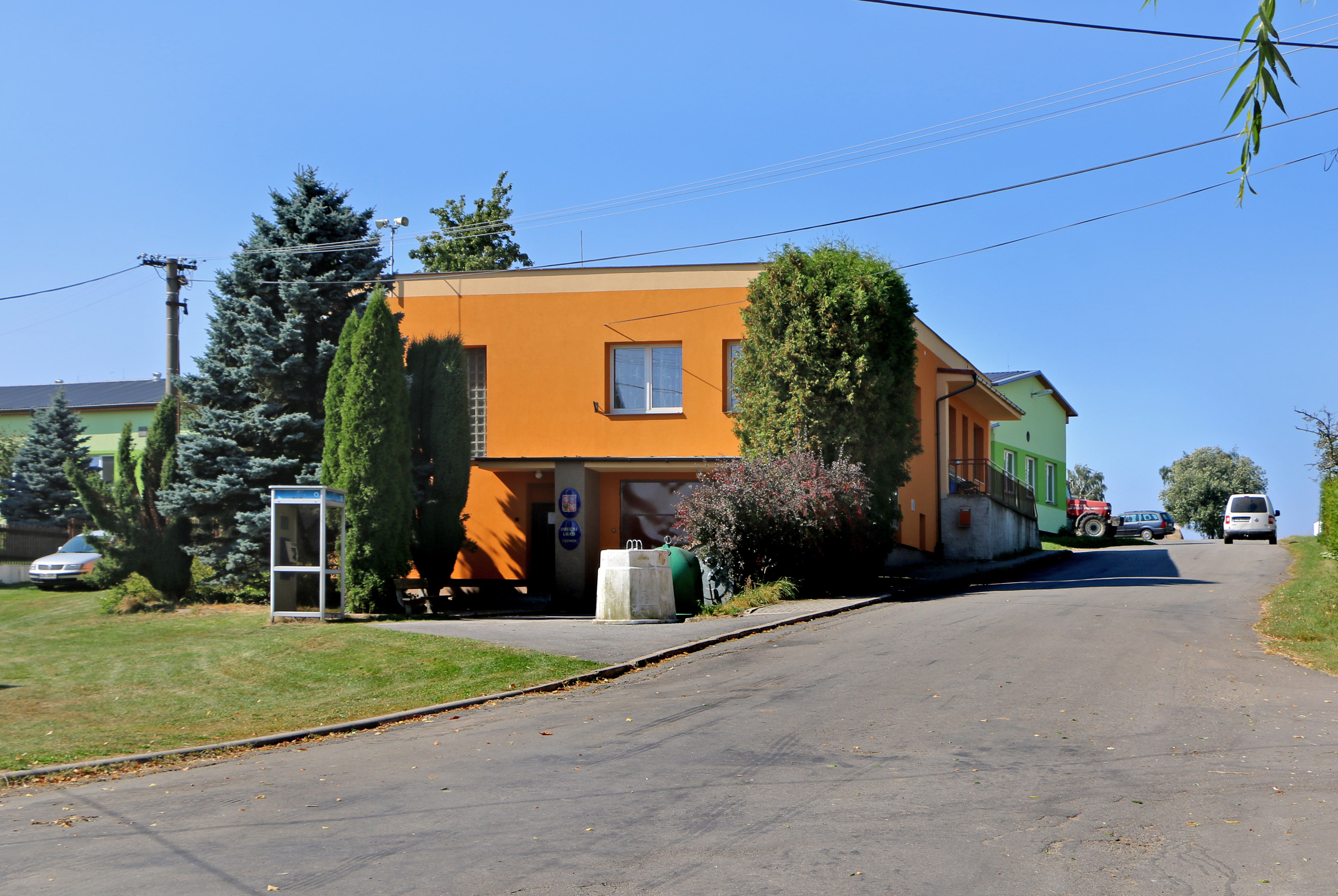 Municipal office in Černov, Czech Republic.